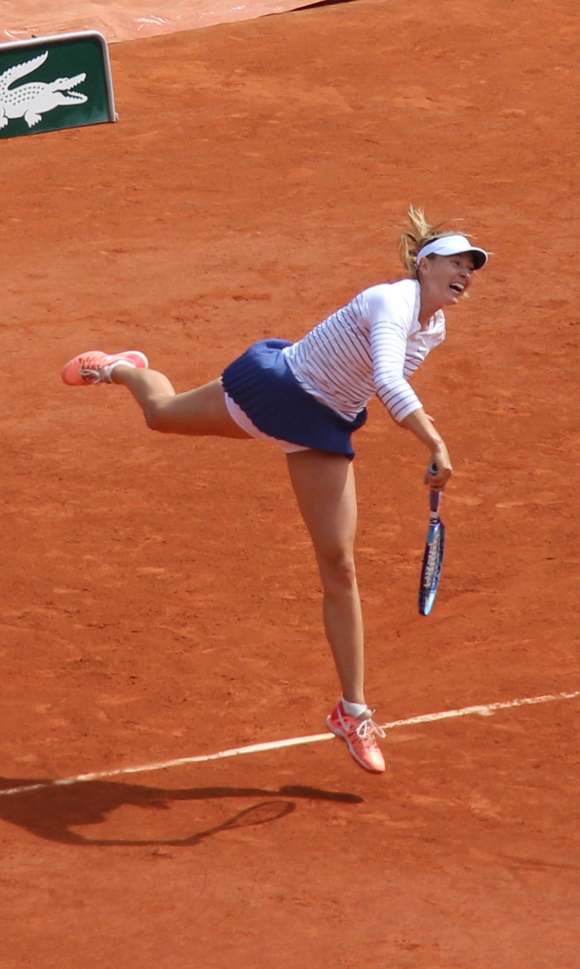 Russian Maria Sharapova at 2015 French Open.